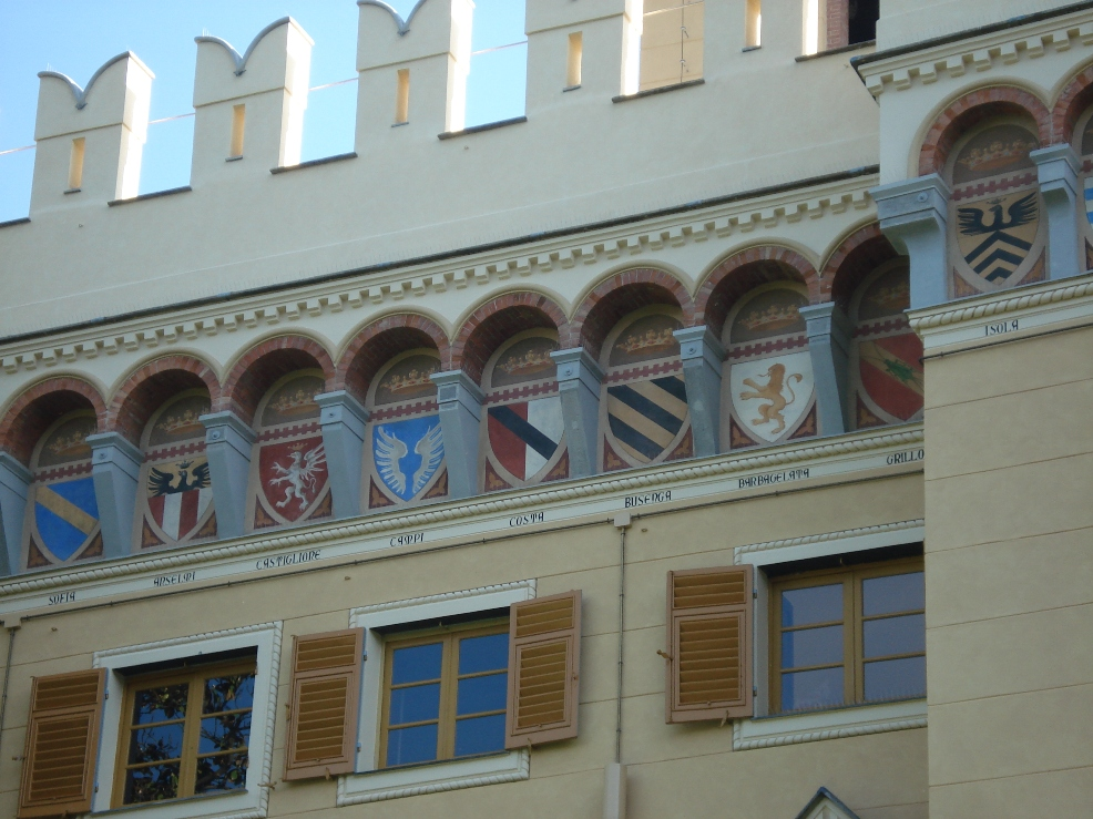 Villa Negrotto Cambiaso in Arenzano